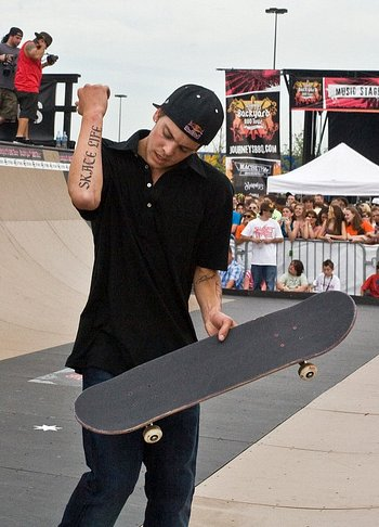 American professional skateboarder Ryan Sheckler Croop